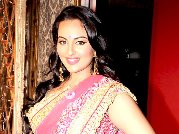 Sonakshi lfw